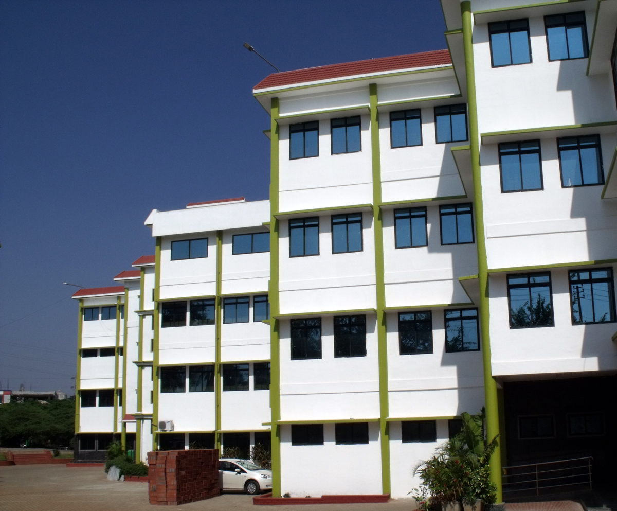 Main administrative block, Vidya vardhaka College of Engineering, Mysore